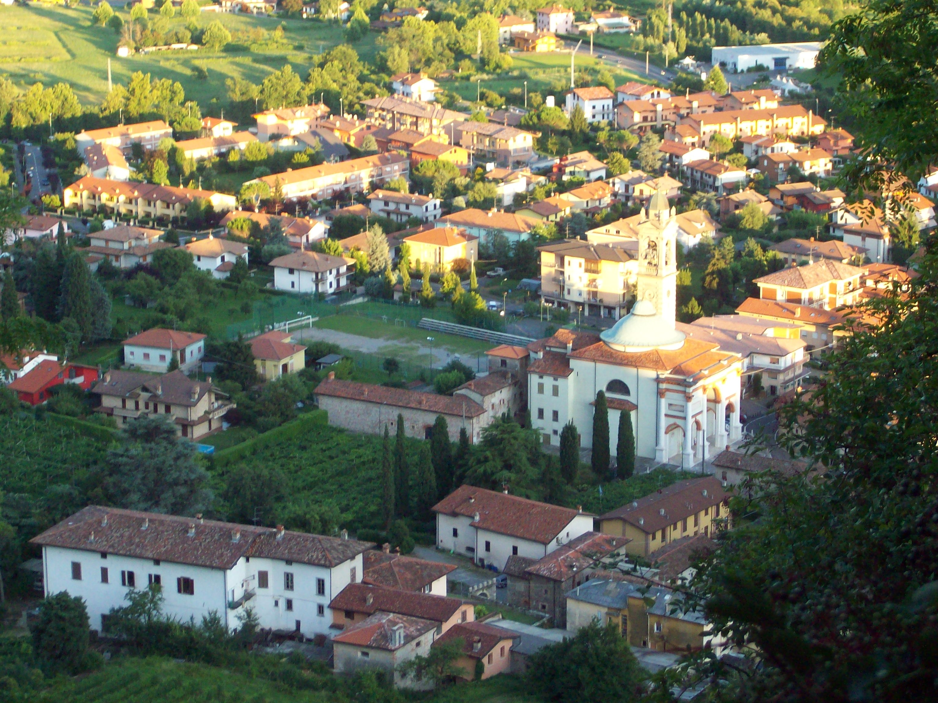 Rosciate seen from the hill of the Three Crosses of Scanzo